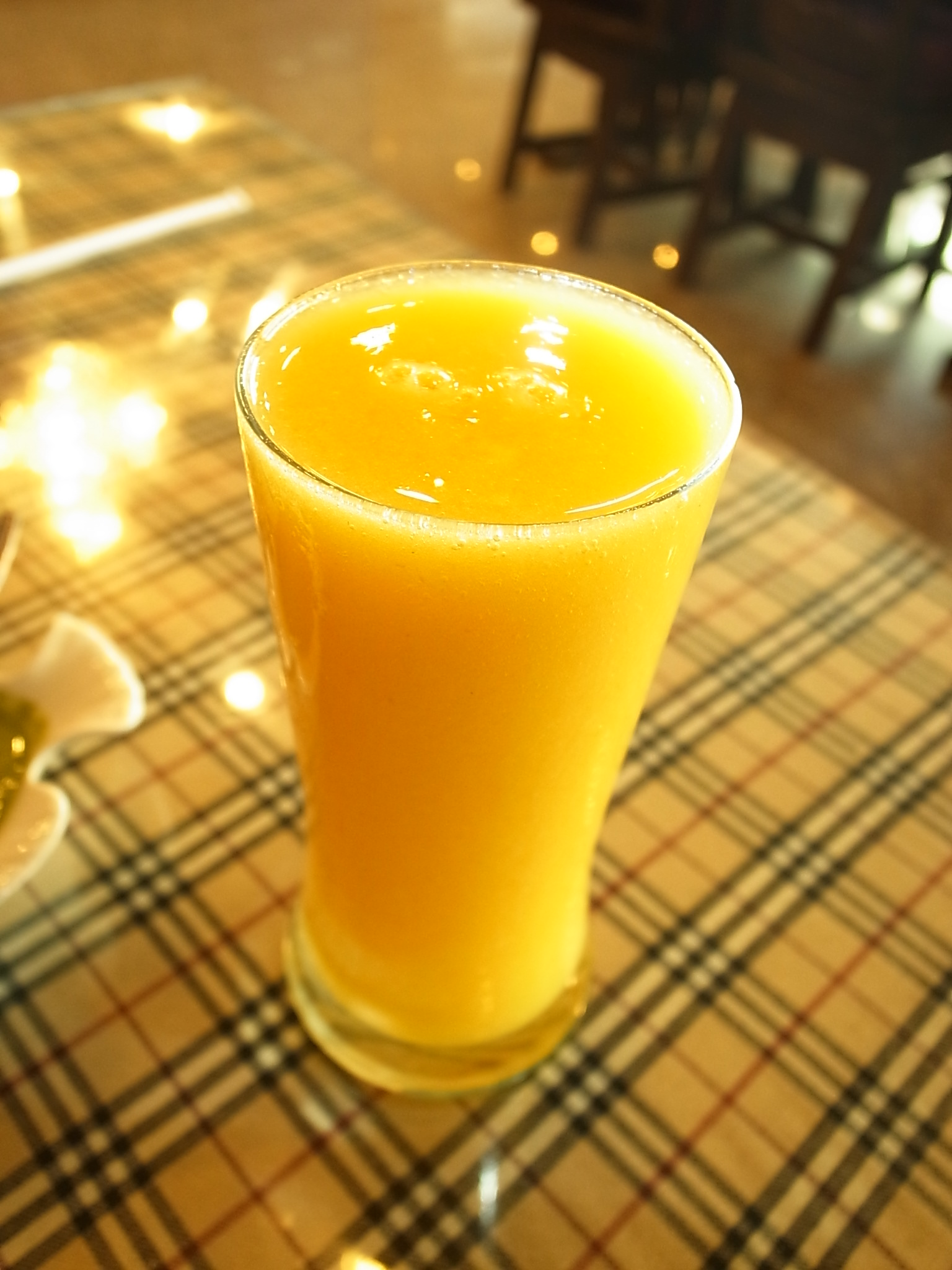 A glass of Mango Juice as served in a restaurant in Patong, Phuket, Thailand.